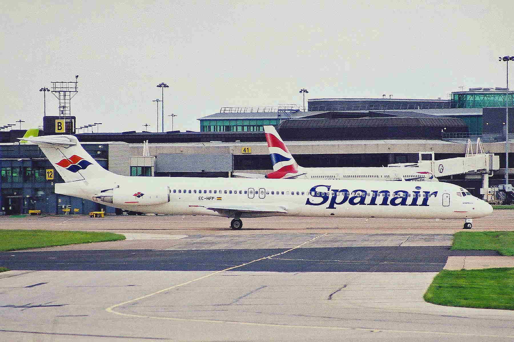 Crashed in Madrid as Flight 5022 on 20 August 2008.